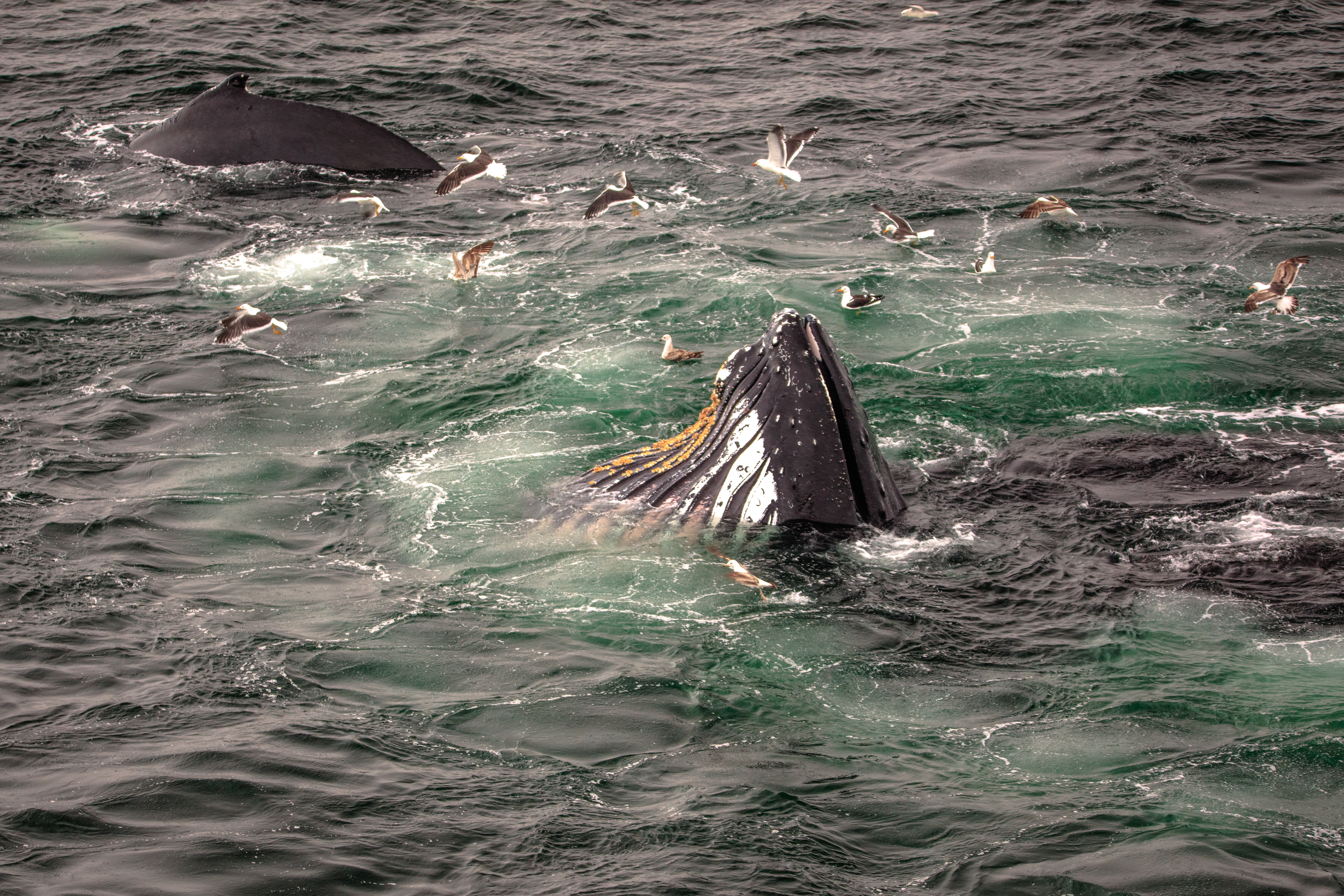 just as dinner was about to be served we were blessed with a feeding orgy of Humpback whales right in front of the ship, forcing the captain to stop in the middle of the Gerlache strait..spectacular display of bubbling techniques...